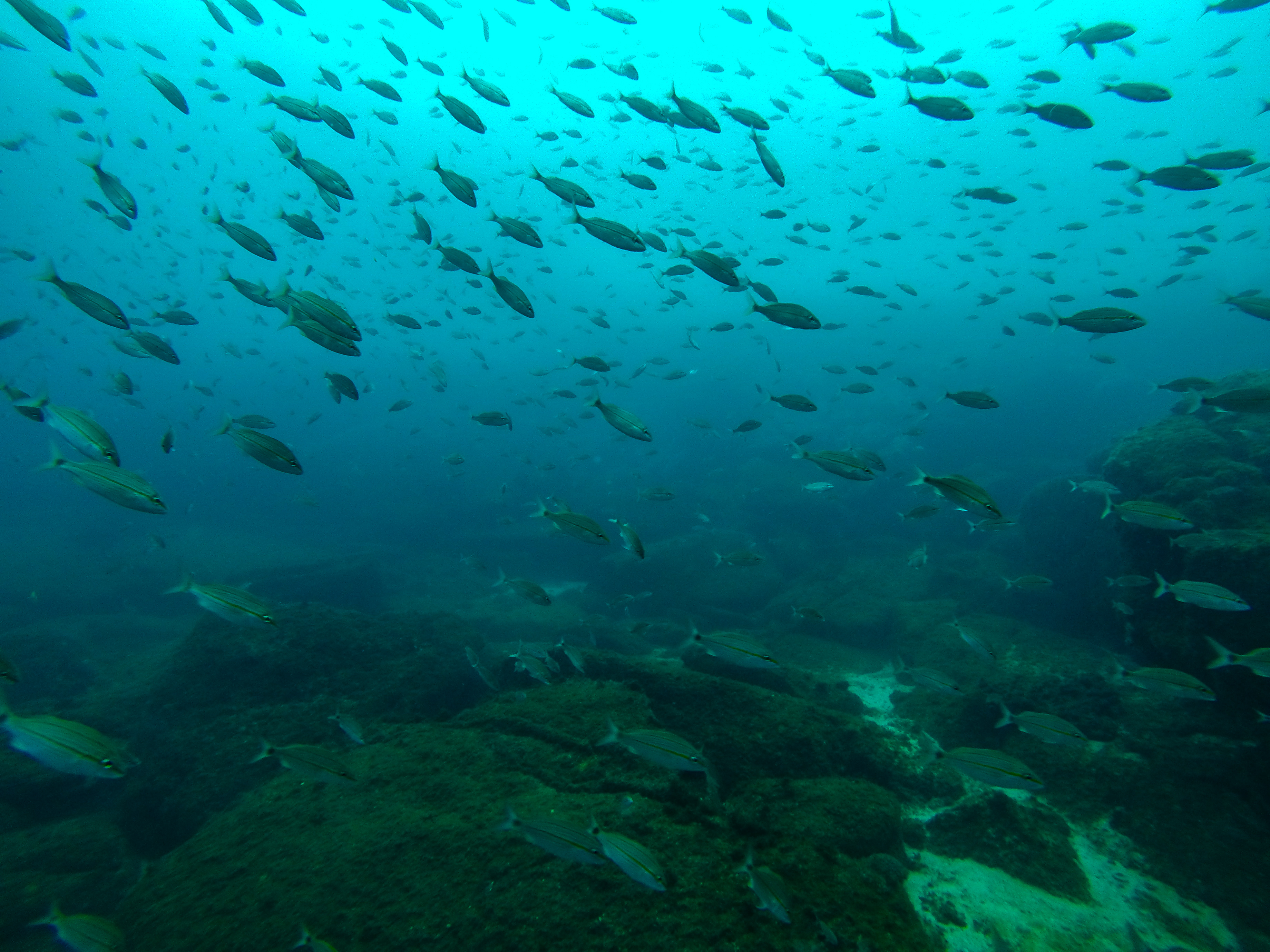 Cardume de Xira na Laje de Santos